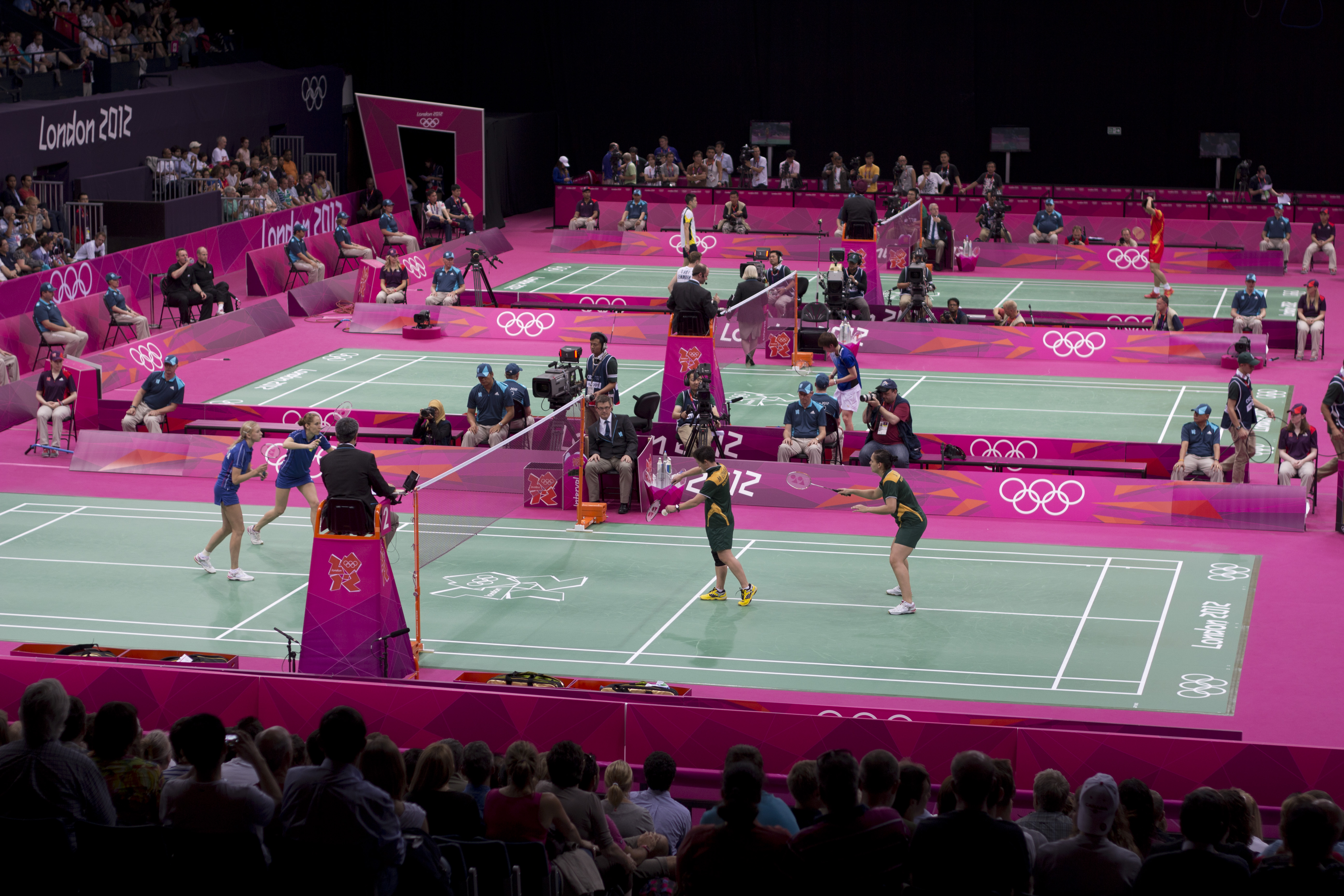 Badminton players